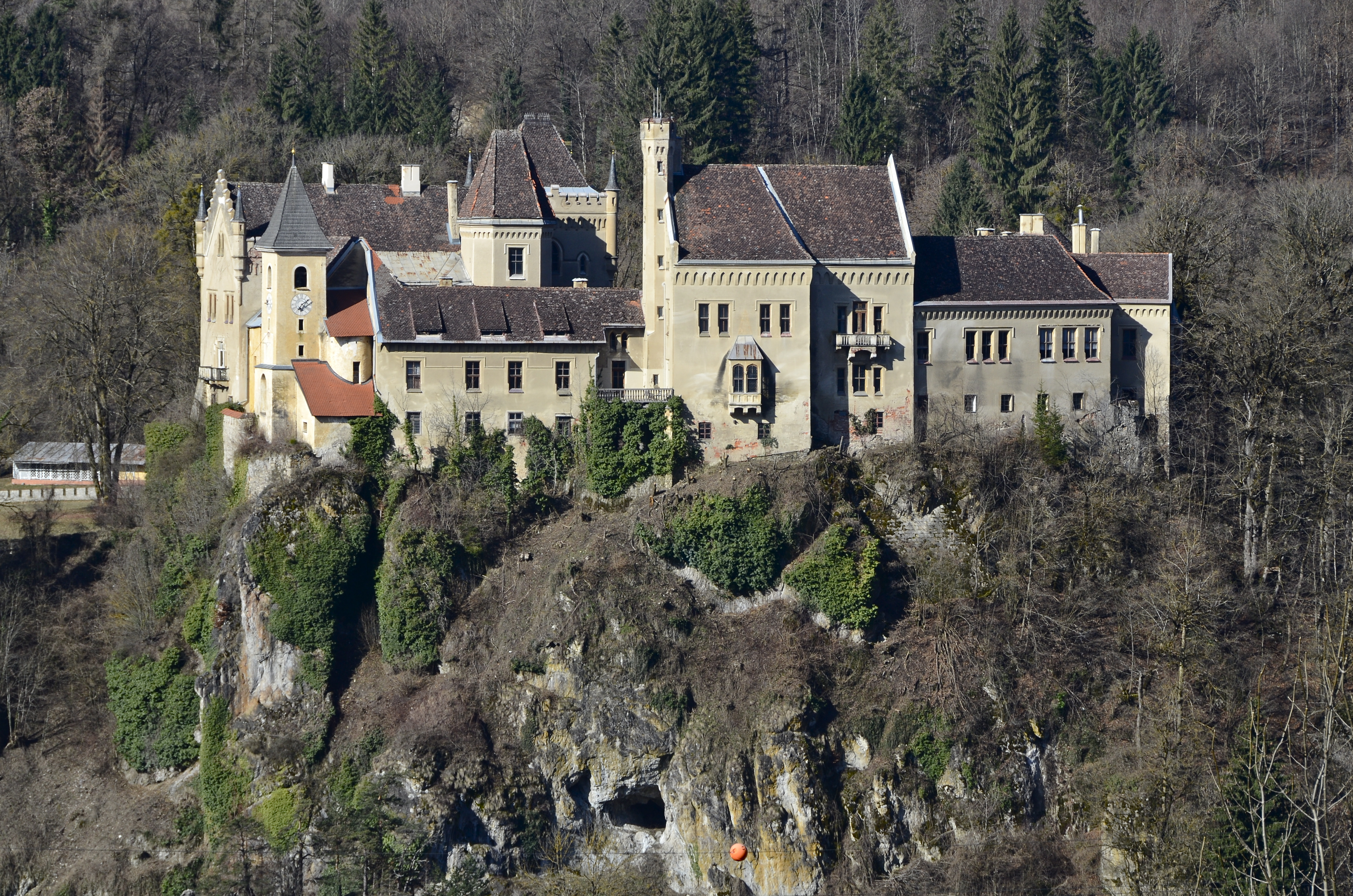 Castle Eberstein on Schlossberg #1, municipality Eberstein (Kärnten), district Saint Veit on the Glan, Carinthia / Austria / EU